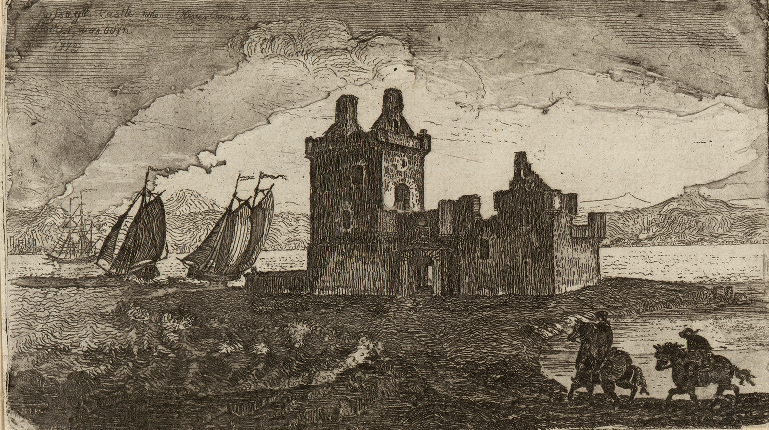 An image from a set of 8 extra-illustrated volumes of A tour in Wales by Thomas Pennant (1726-1798) that chronicle the three journeys he made through Wales between 1773 and 1776. These volumes are unique because they were compiled for Pennant's own library at Downing. This edition was produced in 1781. The volumes include a number of original drawings by Moses Griffiths, Ingleby and other well known artists of the period. Thomas Pennant (1726-1798)